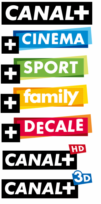 CANAL+LE BOUQUET